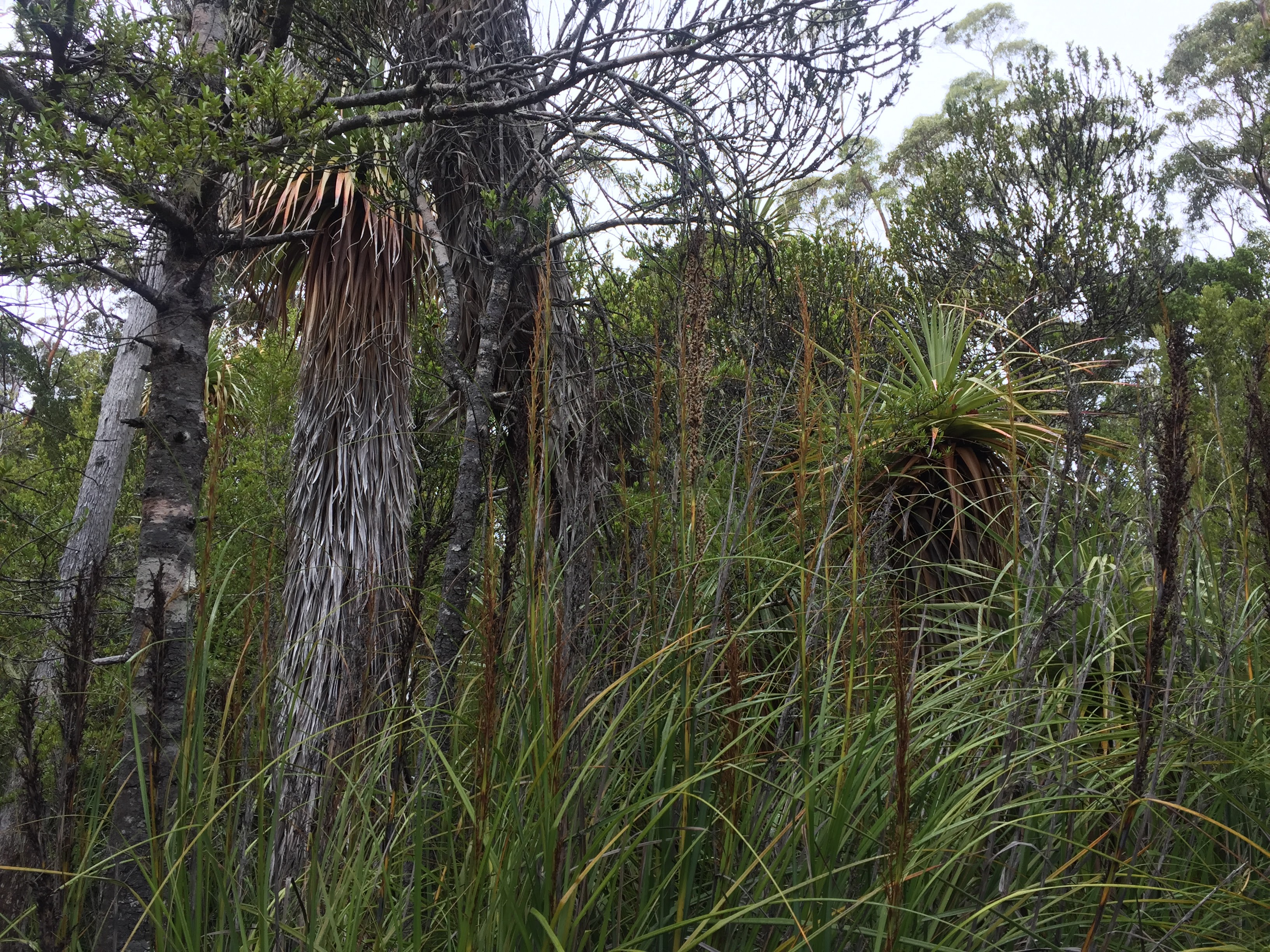 plants